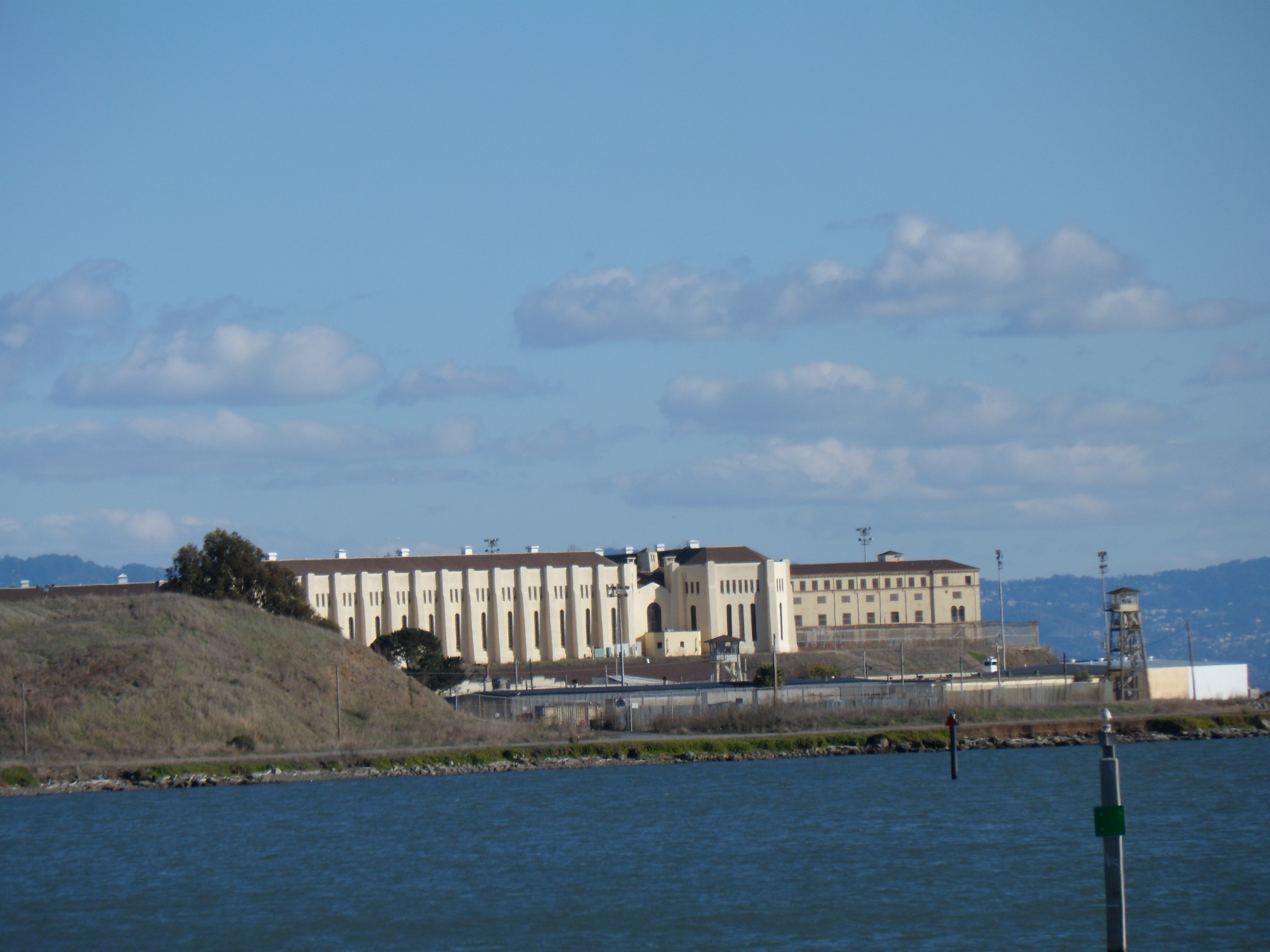 San Quentin State Prison